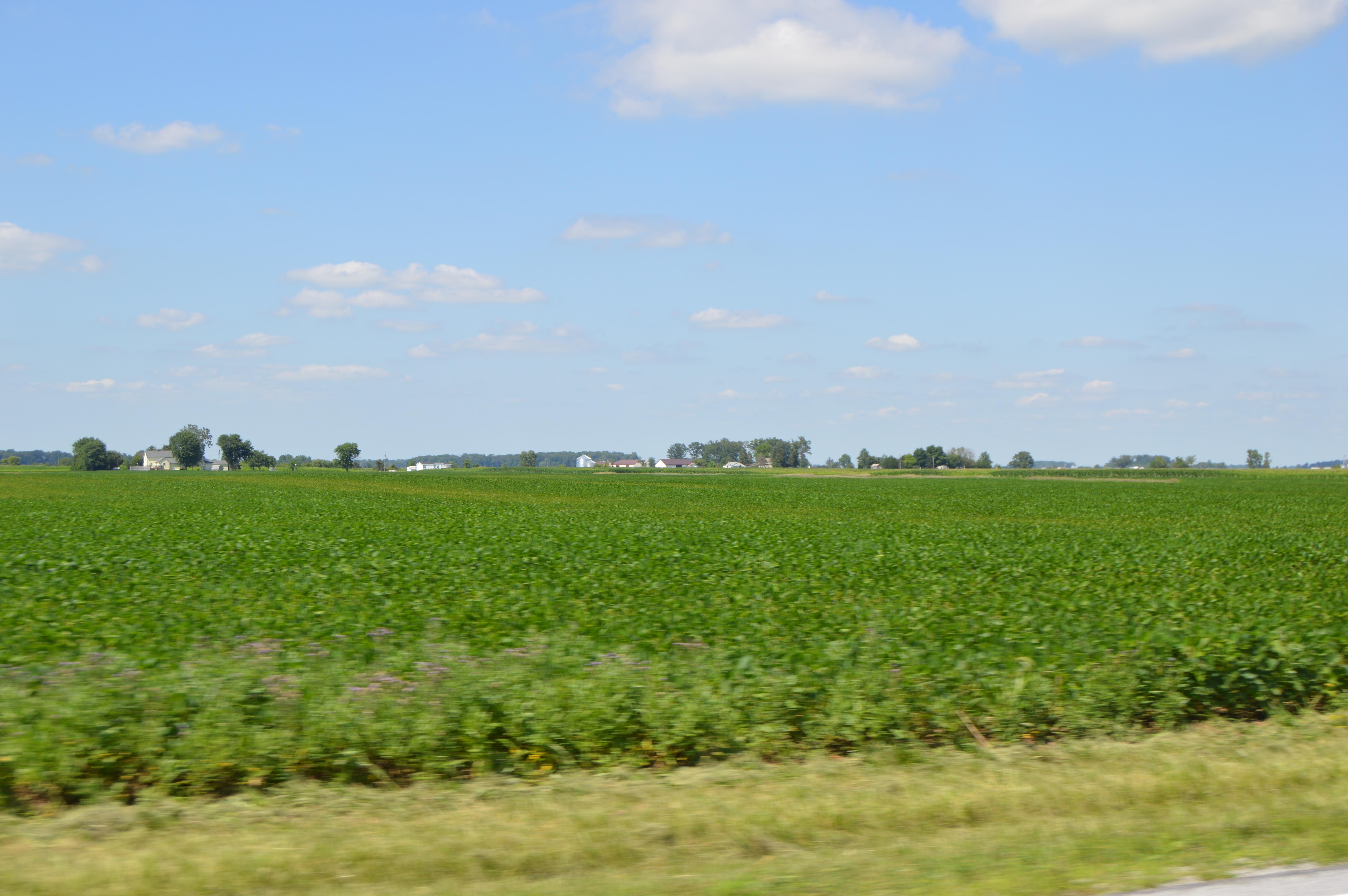 Soybean fields in western Spencer Township, Allen County, Ohio, United States, seen looking north from State Route 117 just east of County Line Road.